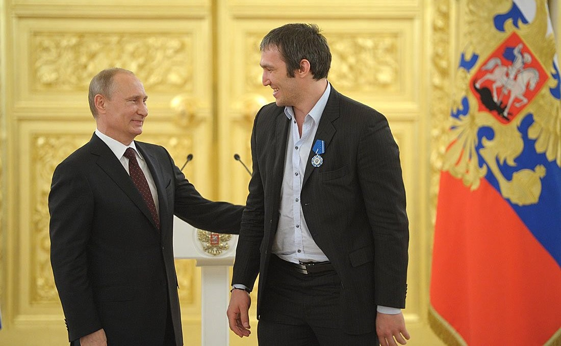 Putin with captain of the Russian national ice hockey team Alexander Ovechkin, during an award ceremony for the members of the Russian national ice hockey team – the 2014 World Champions. It was held in the Grand Kremlin Palace.